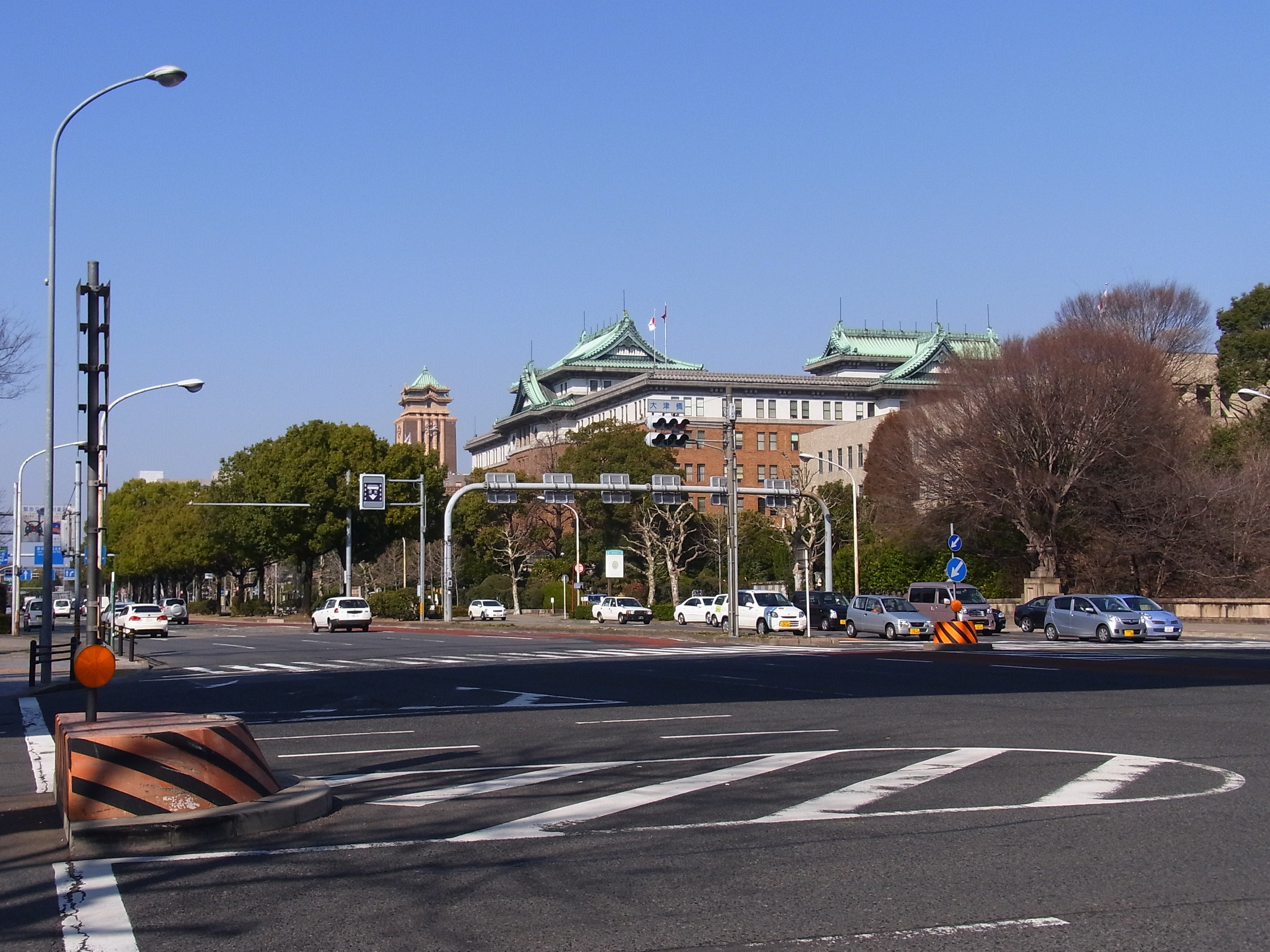 Otsu-dori Street in San-nomaru, Naka-ku Ward, Nagoya City.